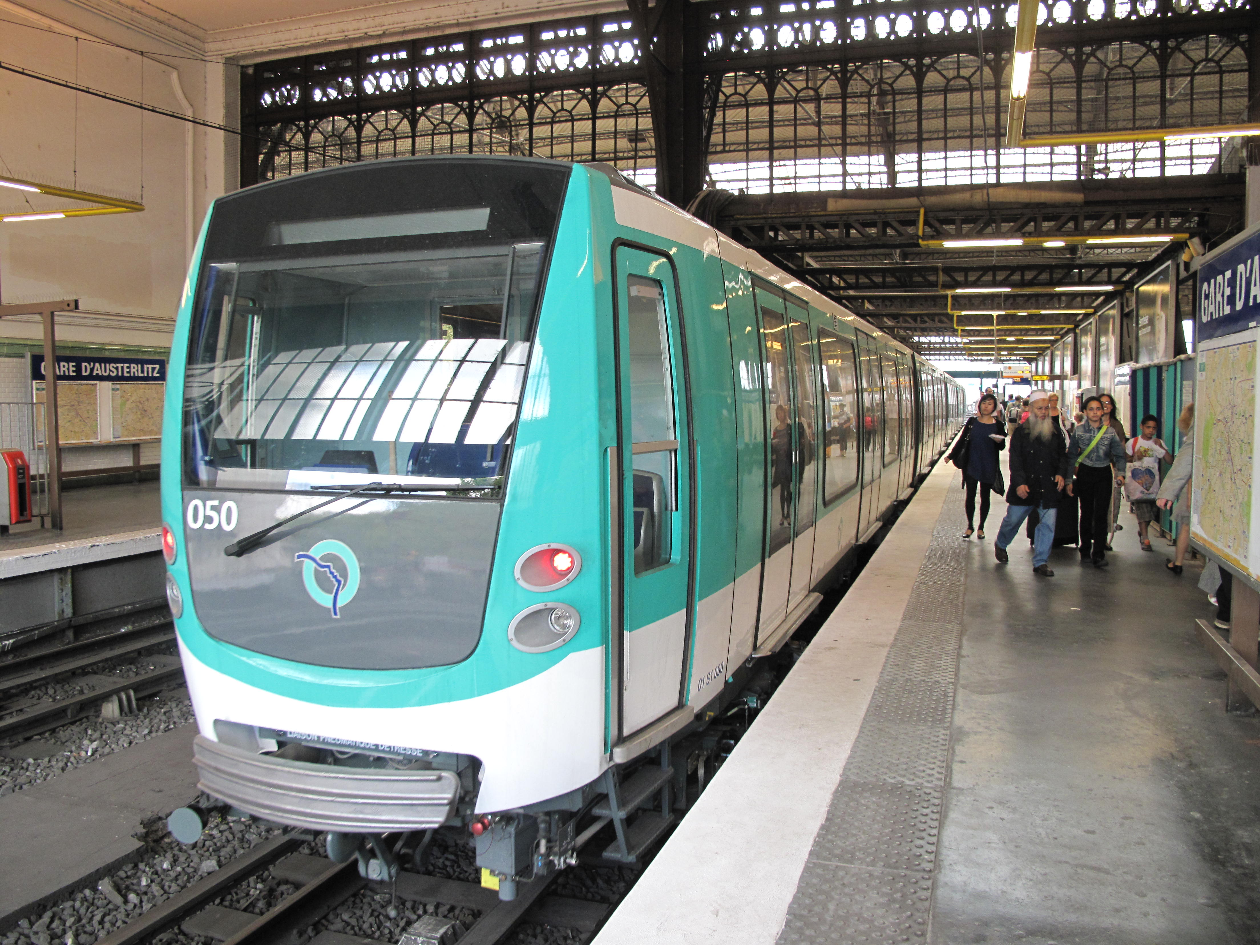 Train RATP MF 2000 leaving the metro station Gare d'Austerlitz, Paris.